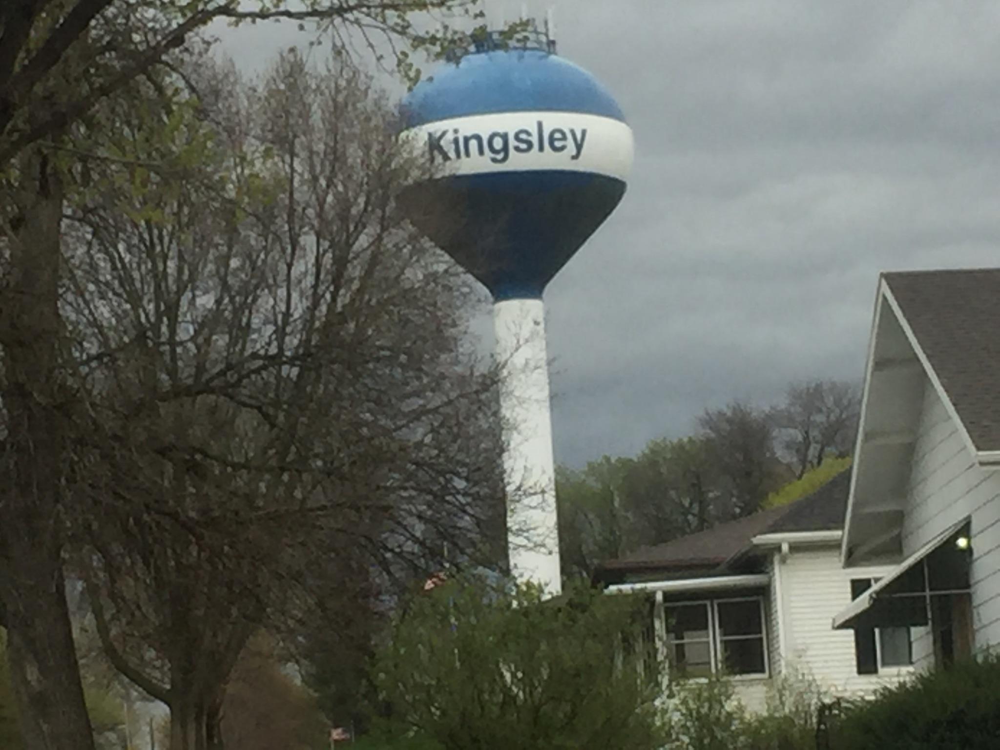 The current Kingsley, Iowa water tower.